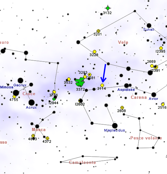 NGC 3114